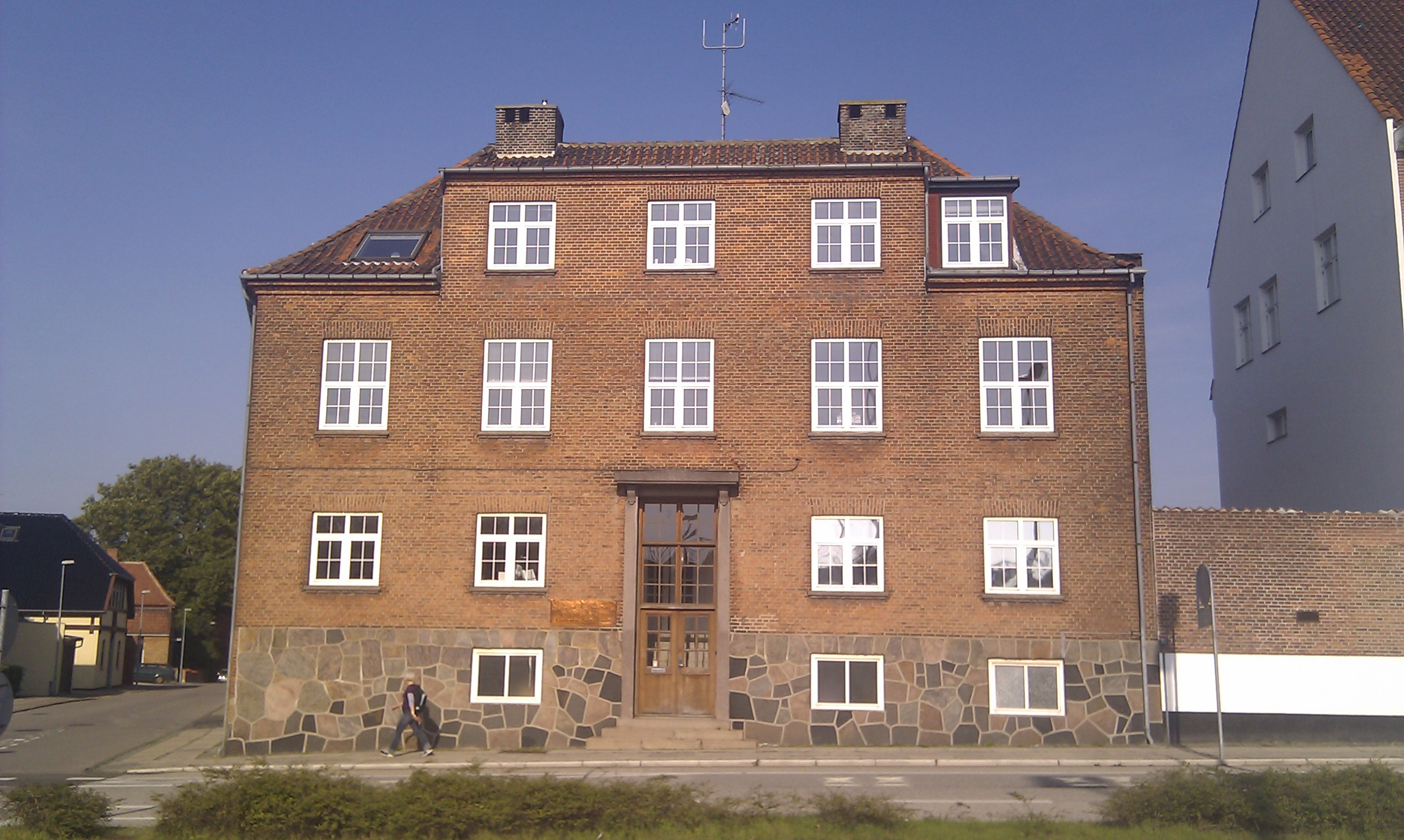 Head office of Regionstog A/S in Holbæk, Denmark. Originally head office of Odsherredbanen and Hørve-Værslev Banen